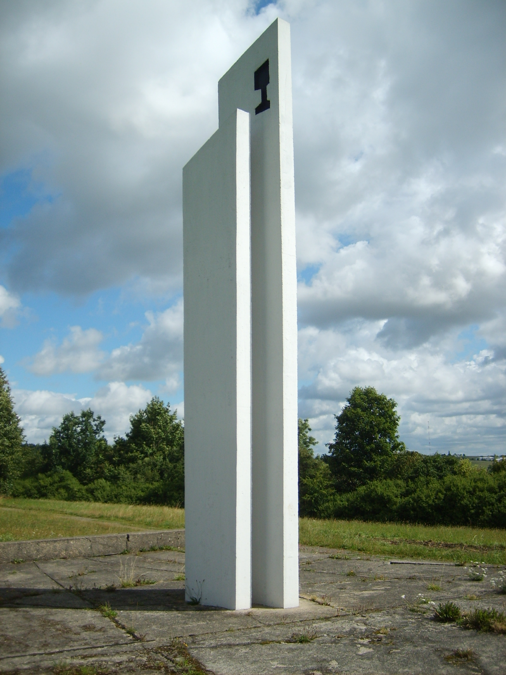 Monument of hussite batlle near Tachov (1427)